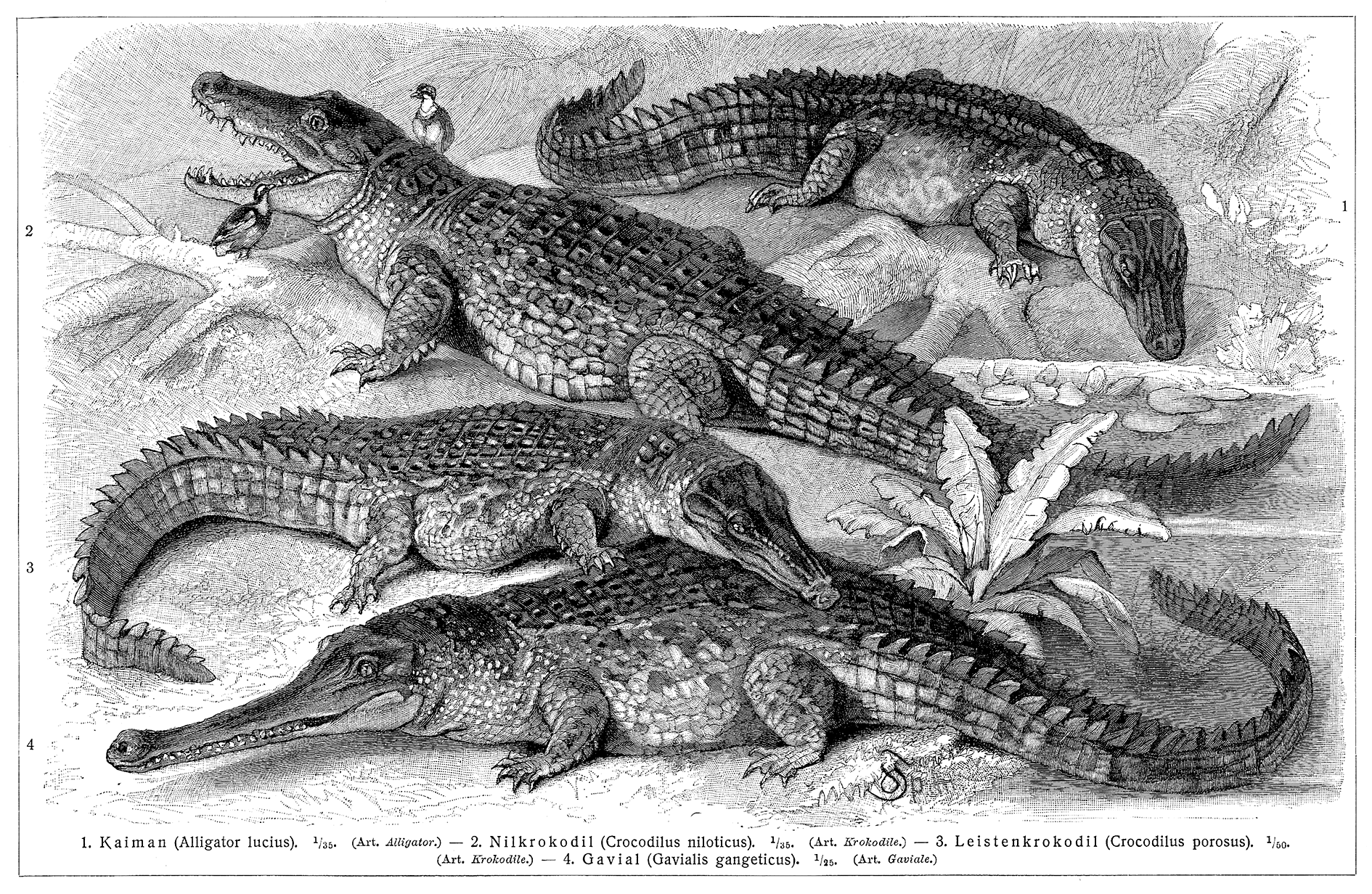 Historical drawings of several modern crocodile species. Note that number 1 is actually the American alligator (Alligator mississippiensis, here referred to as “Kaiman” and Alligator lucius, respectively).